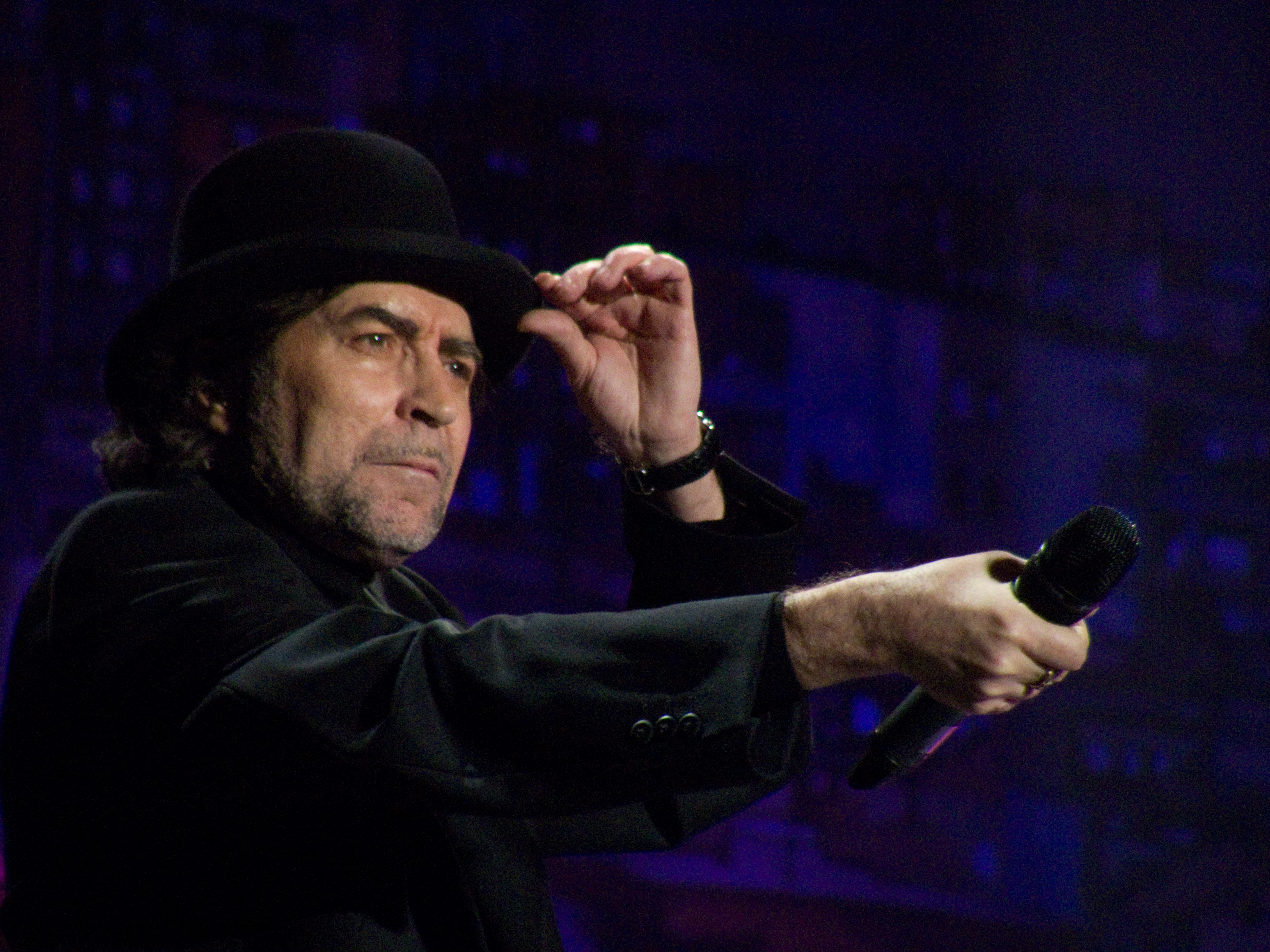 Joaquín Sabina during a concert of the "Vinagre y rosas" Tour in Madrid (Spain)